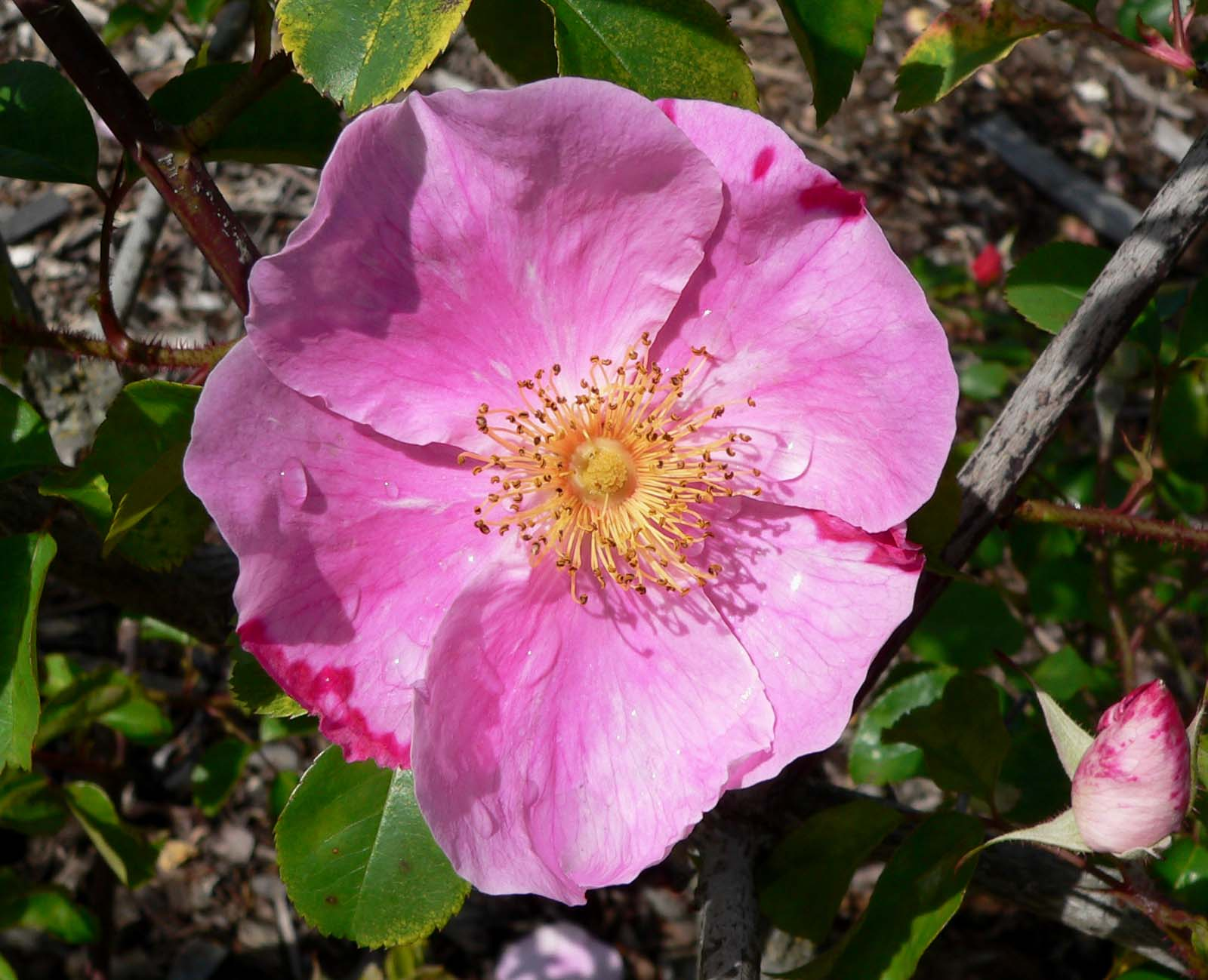 Photo of Rosa 'Anemone' at the San Jose Heritage Rose Garden